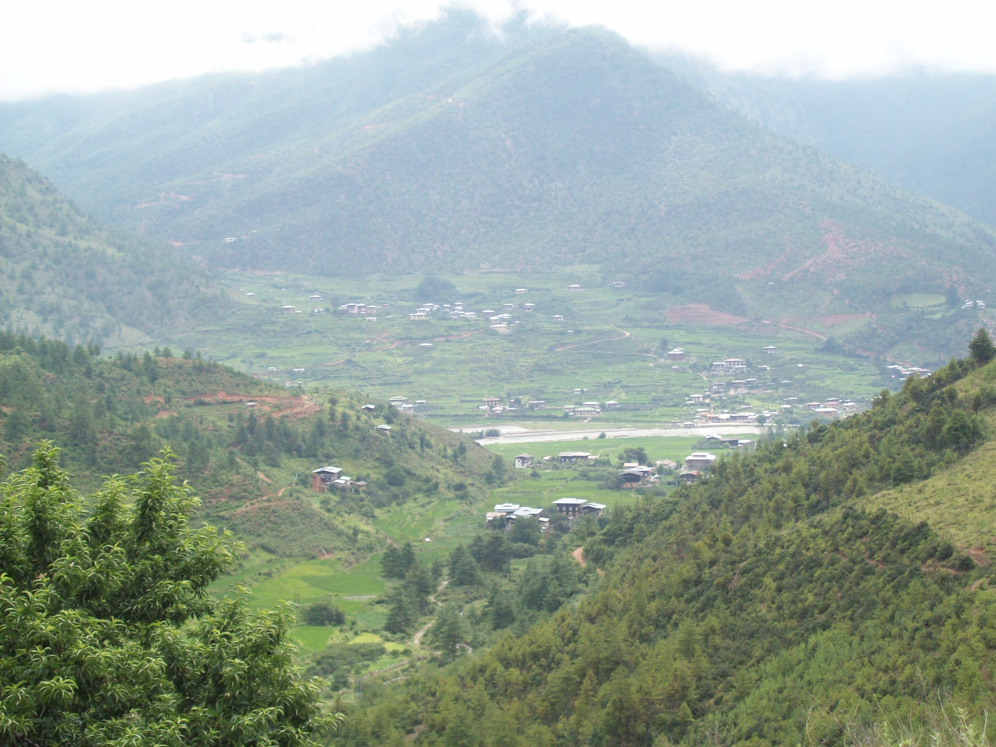 A great view